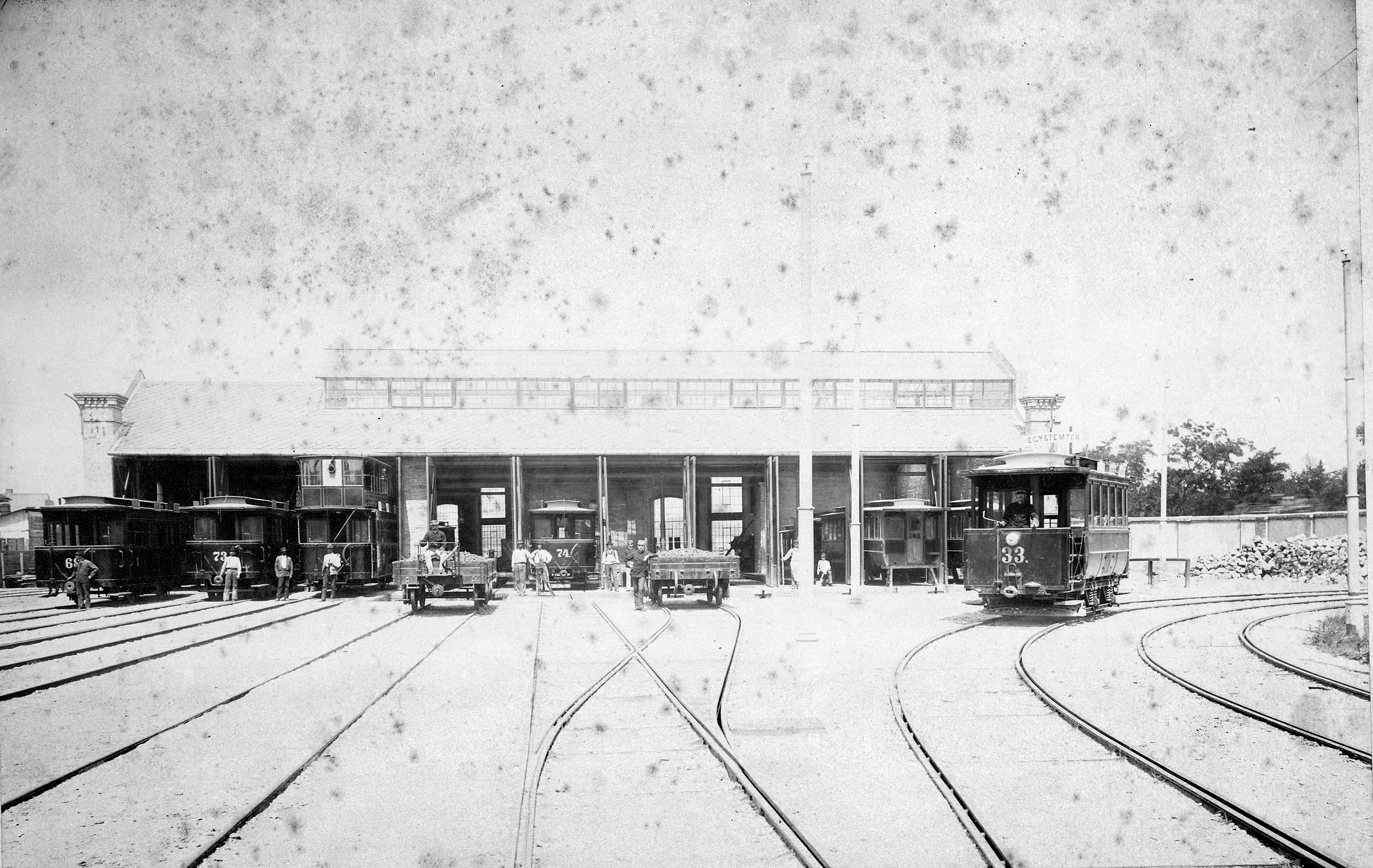 Location: Hungary, Budapest VIII. Tags: Budapest